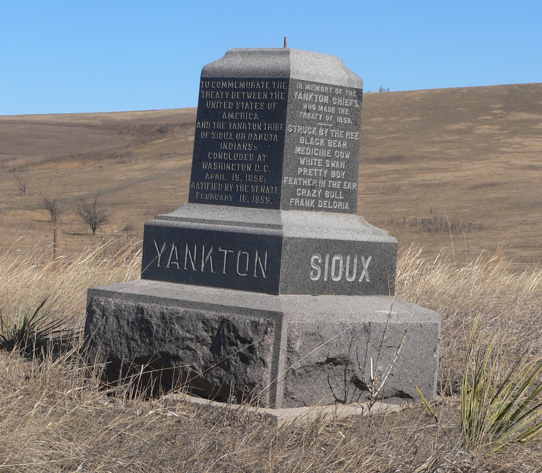 Monument at northern edge of Greenwood, Charles Mix County, South Dakota, commemorating the Yankton Sioux Treaty of 1858.